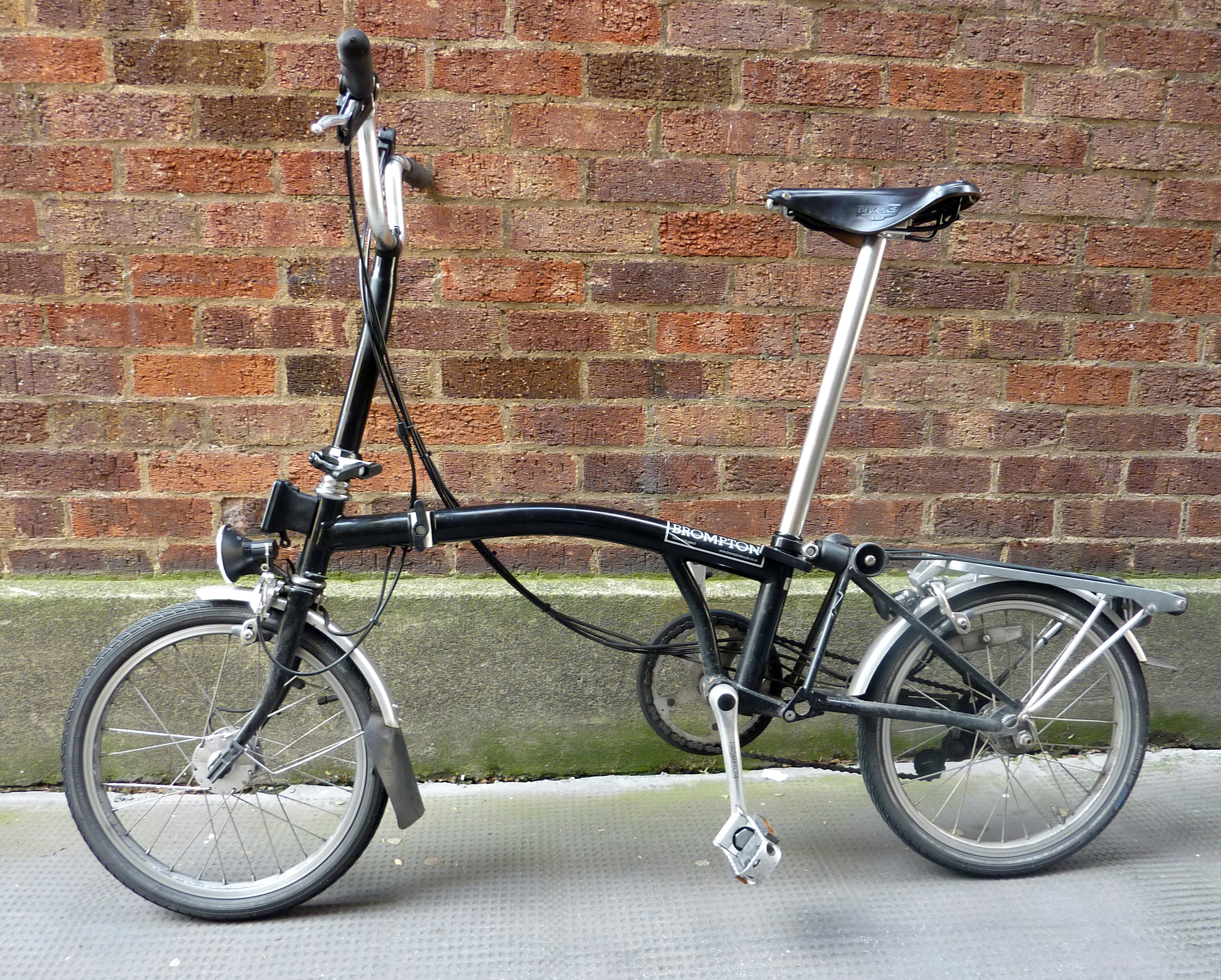 Brompton folding bike